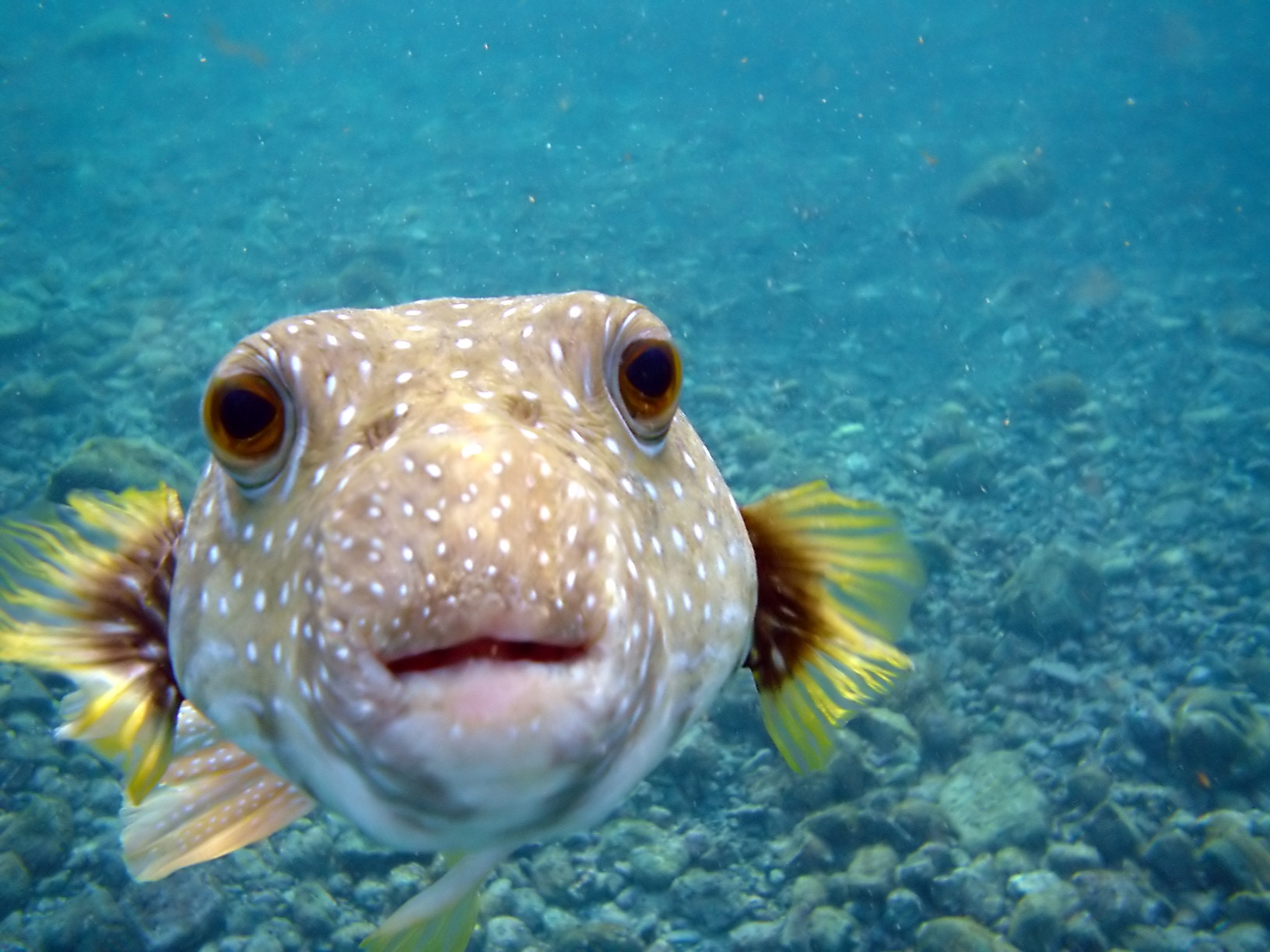 A Puffer Fish,Arothron hispidus is kissing my camera at Big Island of Hawaii.